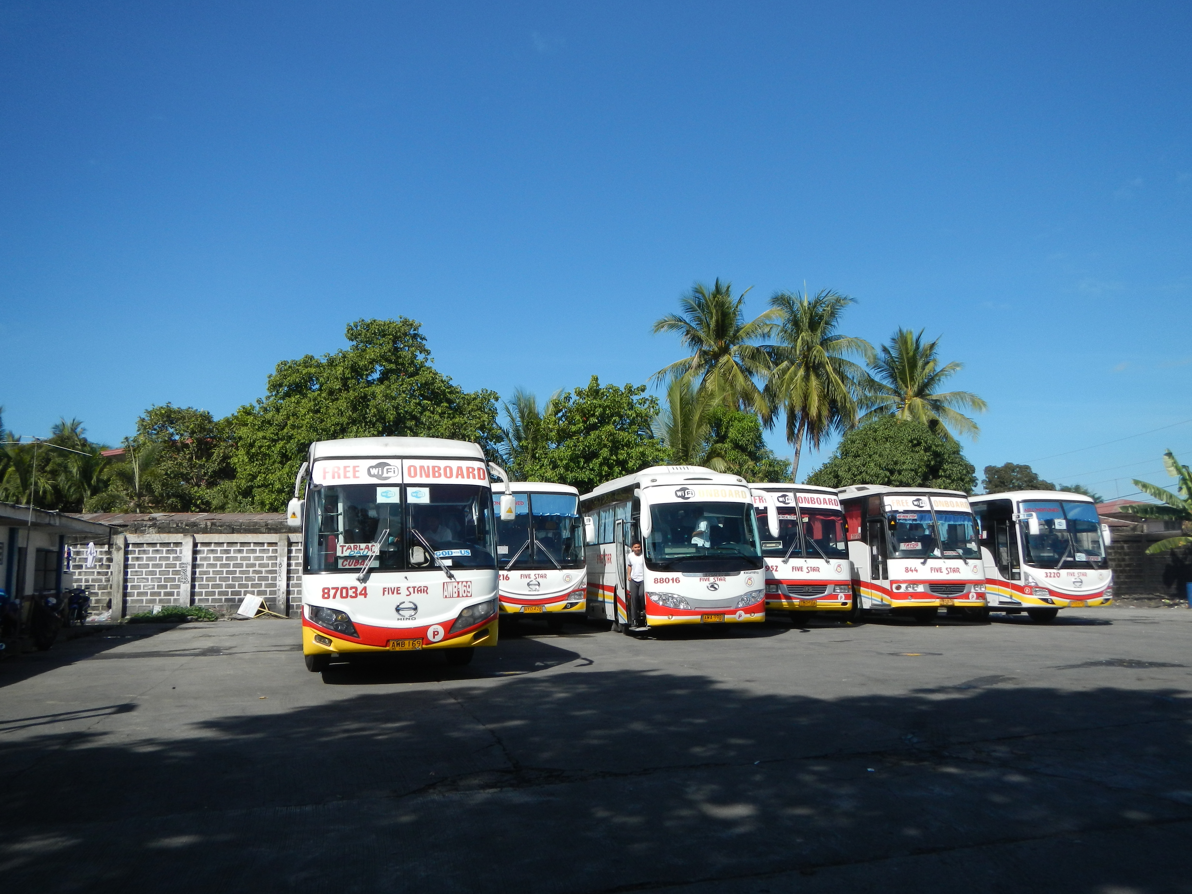 Tayug, Pangasinan Town Proper, the bus stop terminal of Five Star buses, Rizal cor. Mabini streets, Magic Mall, and other Commercial establishment.